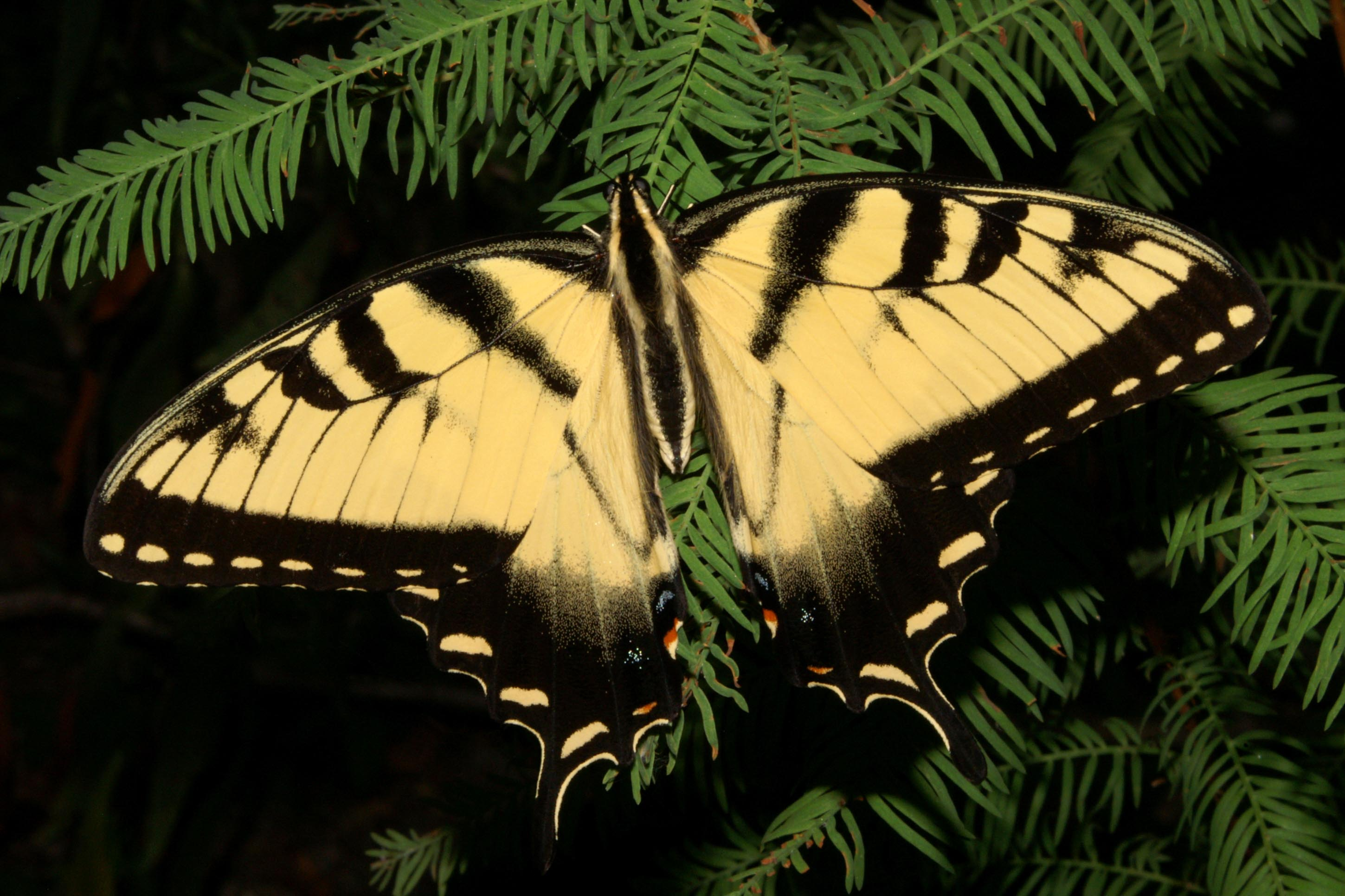 A beautiful male Eastern Tiger Swallowtail. Taken by Kenneth Dwain Harrelson on August 7th, 2007.